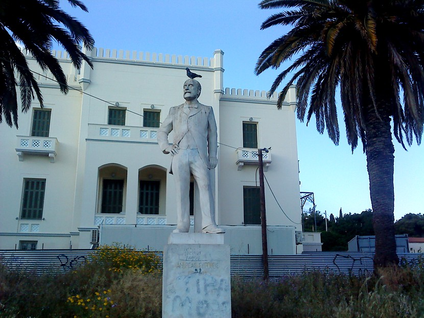 Andreas Syggros, Maroussi